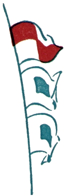 United Seamen's Service logo, made from the International Marine Signal Flags U-S-S, drawn in Naples, Italy in 1970 at the USS Center on Via Acton 18.